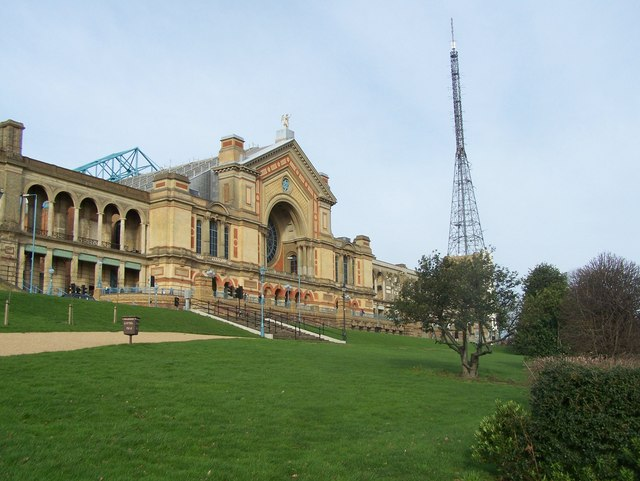 Ally Pally